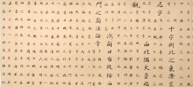 Replica of Ryōkyō shinki (両京新記) vol. 3, Kanazawa Bunko edition, located at Maeda Ikutokukai (前田育徳会?), Tokyo.